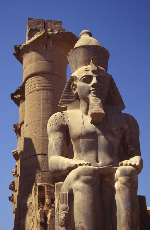 Statue of Ramses II at the entrance to the Luxor Temple in Egypt.